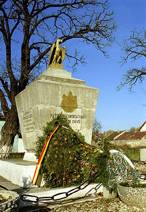 Monument in Braşov (Bartolomeu)